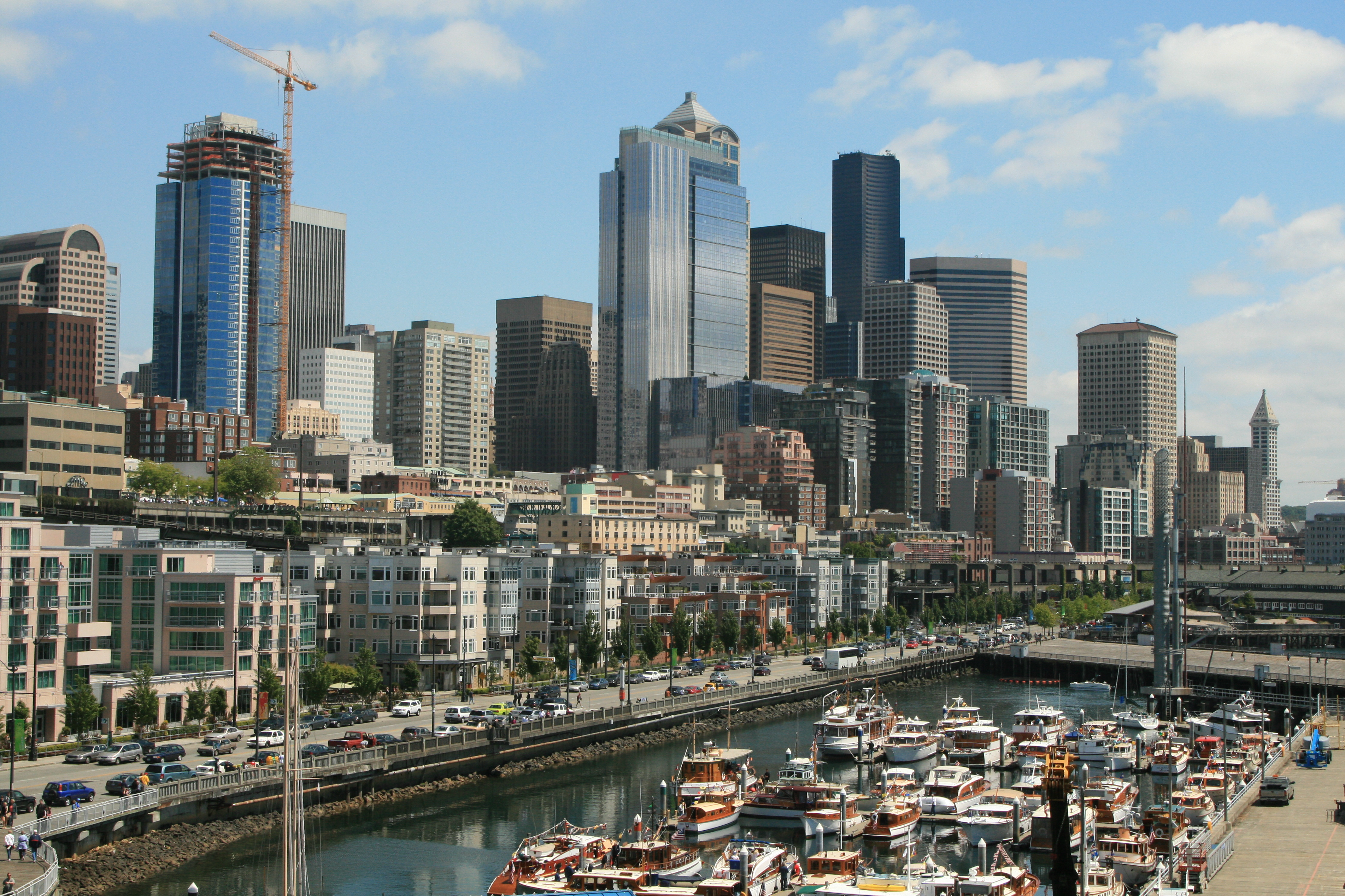 Seattle, Washington